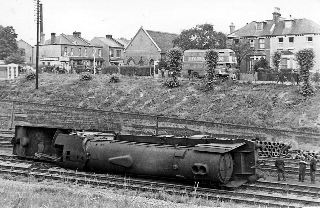 Locomotive humbled after serious derailment at New Southgate. View eastward, across the East Coast Main Line just north of New Southgate Station. [See my 'Triumph and Beyond: the East Coast Main Line, 1939 - 1959, Part 1', Challenger, 1998]. Owing to poor maintenance of the track after the War, the overnight 19.50 Edinburgh - King's Cross derailed at 70 mph north of New Southgate station. The engine became detached from the train and slid along 100 yards. The fireman was killed and the driver injured, but the passengers were relatively unscathed. The locomotive is A2/1 Pacific 60508 'Duke of Rothesay'.